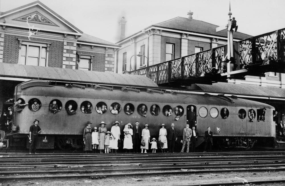 McKeen motor car of the Queensland Railways at Toowoomba Railway Station, c. 1923 Excursion train from Samford to Toowoomba. This motorised bogie coach was custom built and of imported design. Queensland and Victoria used the petrol-mechanical McKeen Car built in the USA.